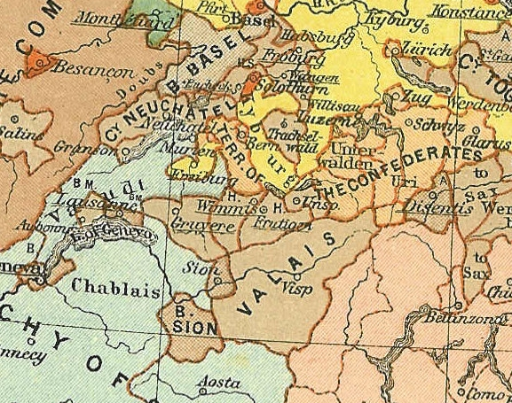 Switzerland in 1378, cropped from a map of the Holy Roman Empire as at the death of Charles IV.